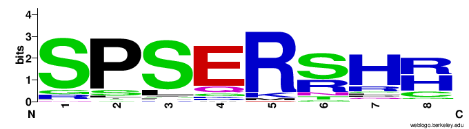 The SPSER is seen to be the most highly conserved with the Arginine(R) rarely changing.